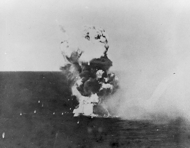 A Japanese Kamikaze hits the U.S. Navy light cruiser USS Columbia (CL-56) at 1729 hrs on 6 January 1945, during the Lingayen Gulf operation. This plane hit the main deck by the after gun turret, causing extensive damage and casualties. The plane and its bomb penetrated two decks before exploding, killing 13 and wounding 44.